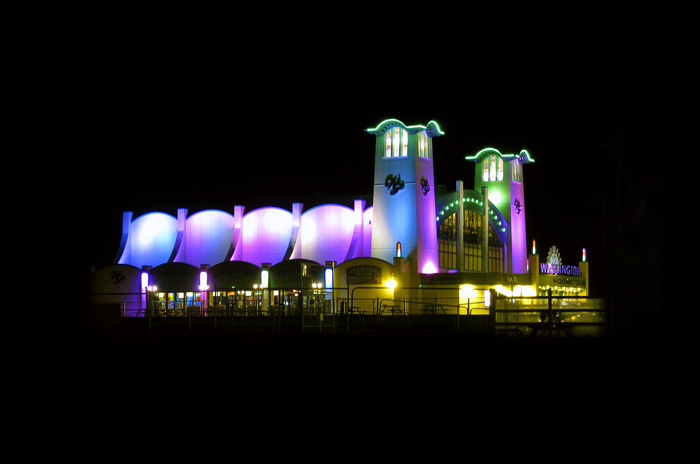 Lights on the pier